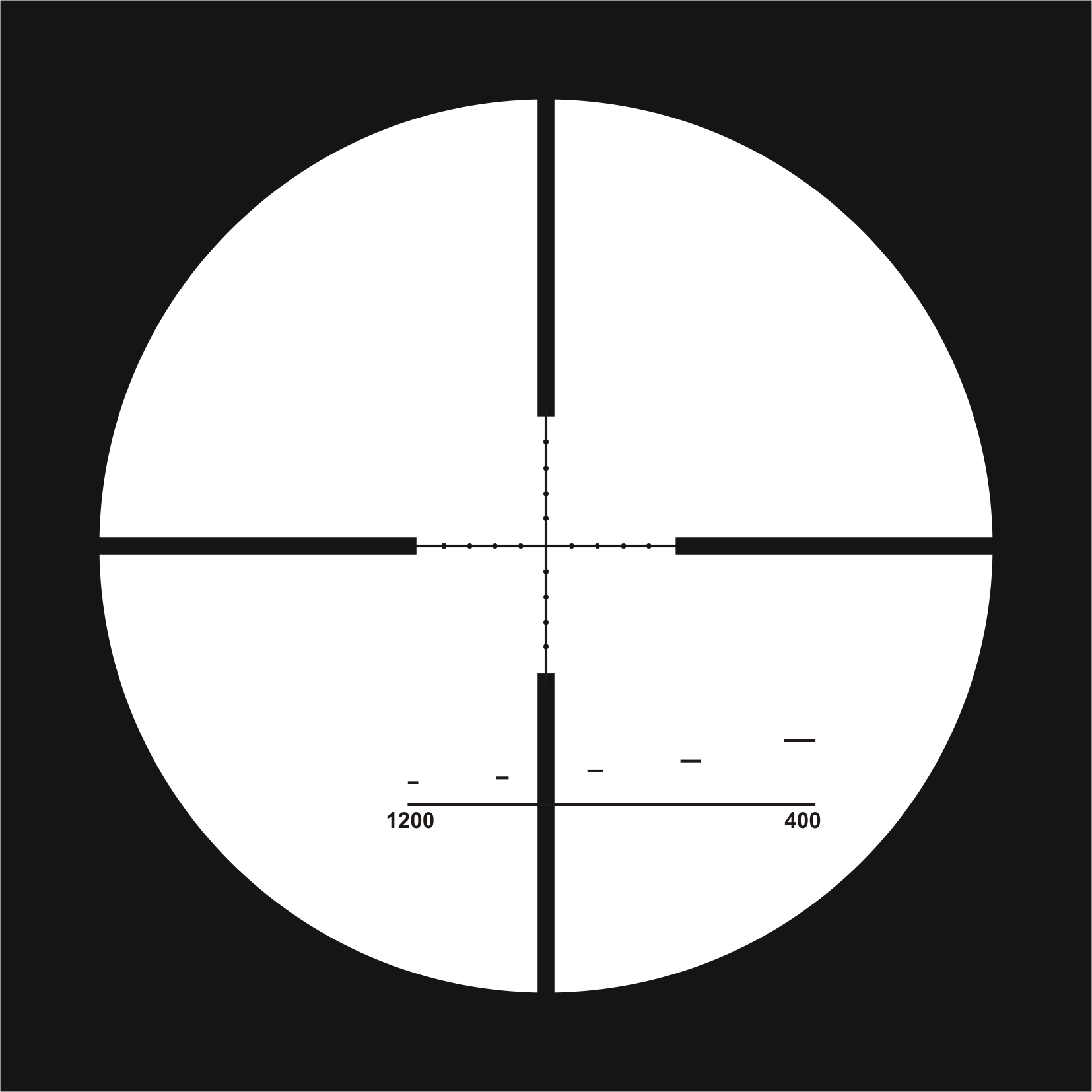 "FinnDot" telescopic sight reticle. The Finnish Defence Forces (FDF) 8.6 TKIV 2000 rifles have custom made Zeiss 3-12x56 Diavari VM/V T* 30 mm telescopic sights with eye safe laser filters mounted. These sights are equipped with first focal plane "FinnDot" reticles (a regular mil-dot reticle with the addition of 400 m – 1200 m holdover (stadiametric) rangefinding brackets for 1 meter high or 0.5 meter wide targets at 400, 600, 800, 1000 and 1200 m). Reticle illumination is provided by a tritium ampoule embedded in the elevation turret. The reticle elevation has 0.25 mil (0.25 mrad) adjustment intervals (total elevation range = 18.6 mils), while the windage has 0.1 mil adjustment intervals. The FDF thinks 0.25 mil elevation intervals are easier and quicker to use with Arctic mittens and that the difference between 0.1 and 0.25 mil adjustment intervals is negligible for anti-personnel sniping (0.1 mil at 1400 m = 14 cm (0.3437747 MOA), 0.25 mil at 1400 m = 35 cm (0.8594367 MOA)). The elevation turrets have 100 m – 1400 m Bullet Drop Compensation (BDC) knobs calibrated for the Lapua Lock Base B408 cartridges the FDF issues its 8.6 TKIV 2000 marksmen. FDF snipers are trained to compensate BDC induced errors that inevitably occur when the environmental and meteorological circumstances deviate from the circumstances the BDC was calibrated for. All vital screw slots on the telescopic sight are designed to be operated with the rim of .338 Lapua Magnum cartridges instead of screwdrivers.